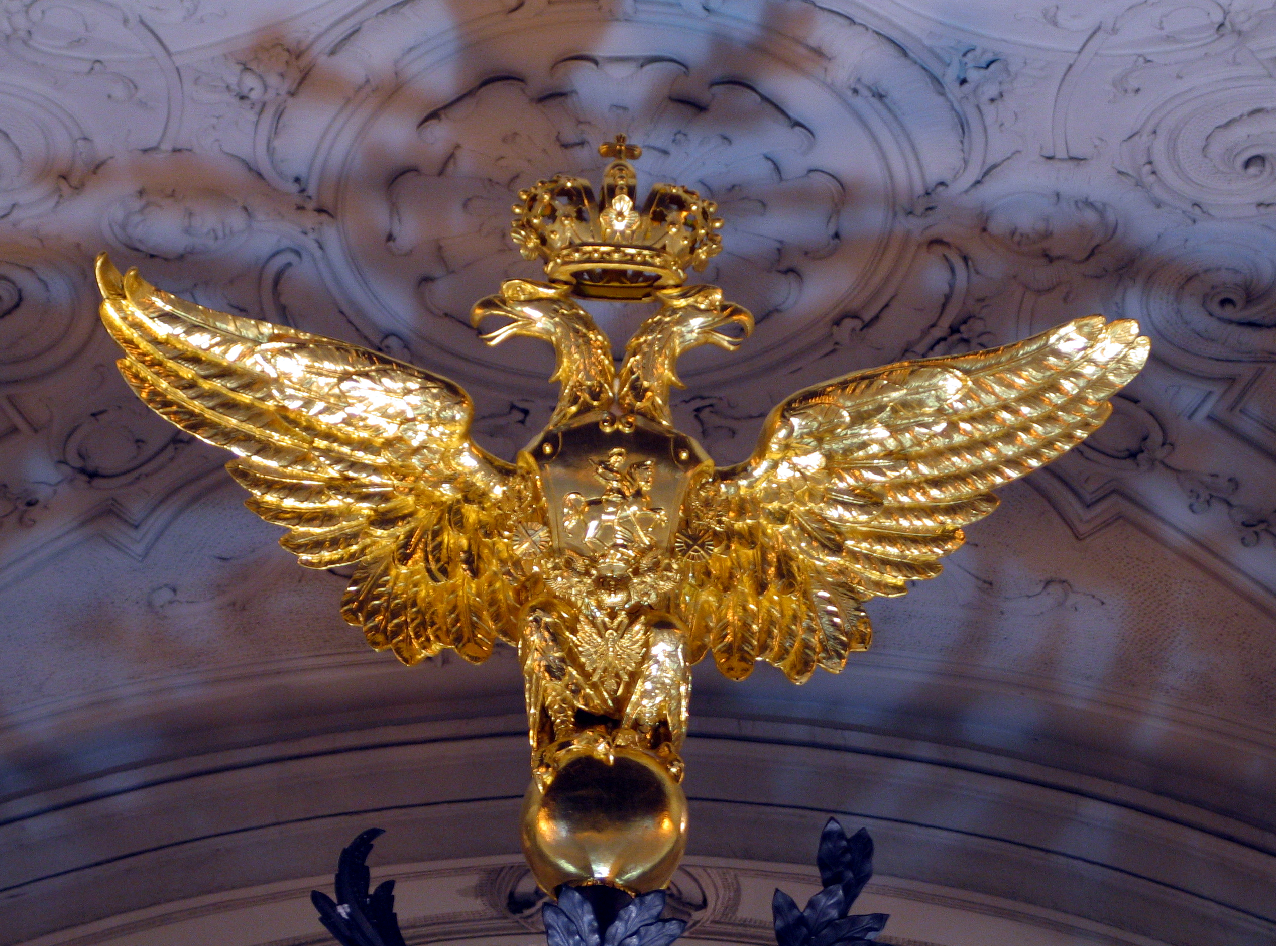 The double-headed eagle on the gates of the Winter Palace